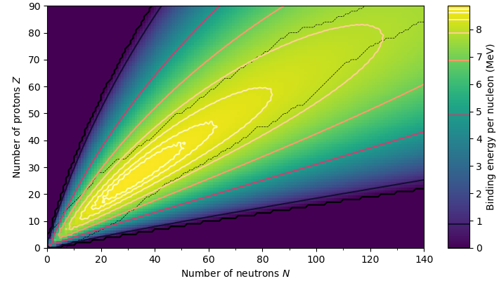 The mean binding energy per nucleon of the Weizsäcker semi-empirical mass formula. Each coloured contour doubles in energy difference from the most stable nuclide, showing the rapid instability outside of experimentally-known nuclides (indicated via the dashed line). Source code and other graphs of this nature